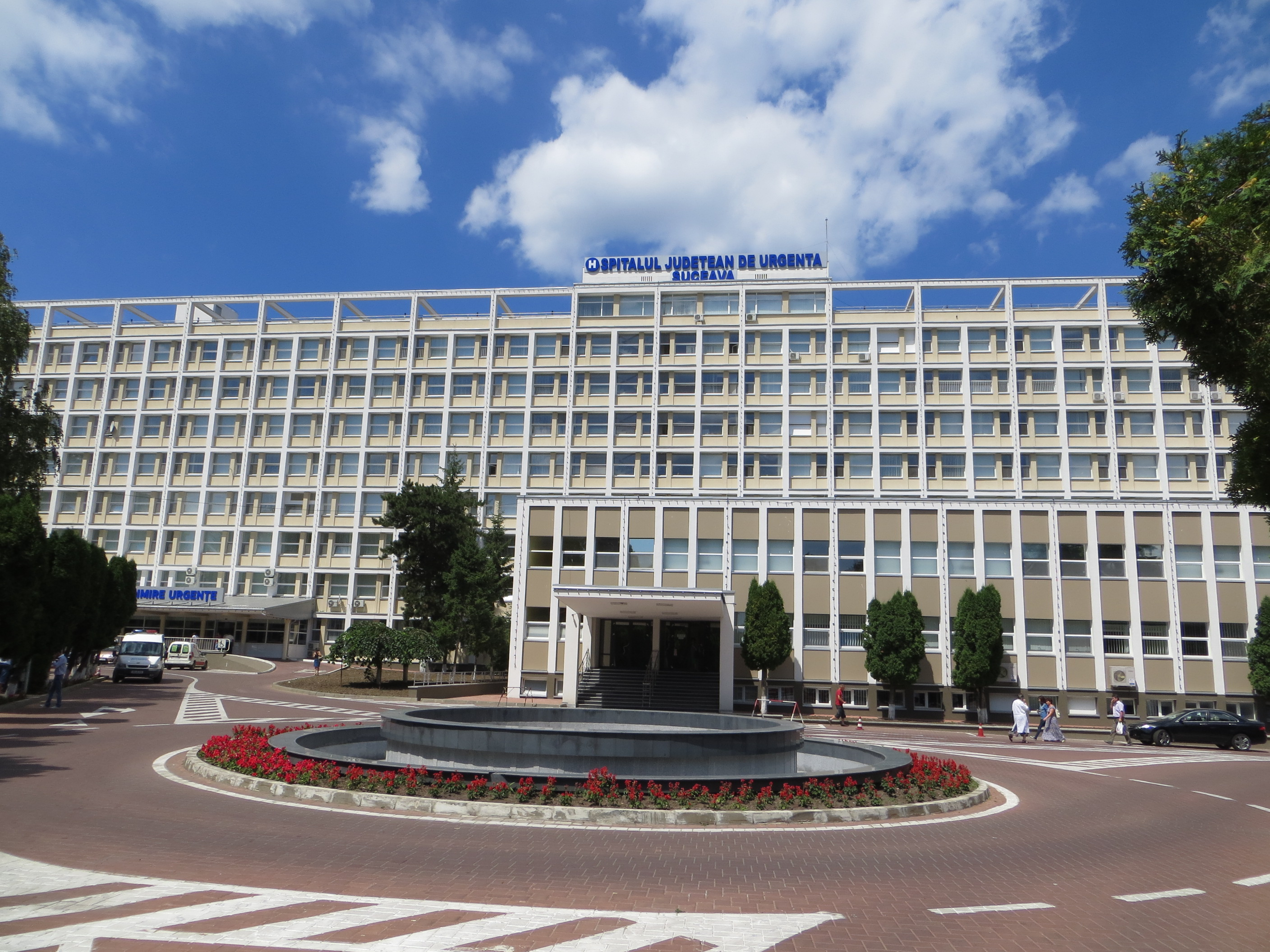 Emergency County Hospital Saint John the New in Suceava.